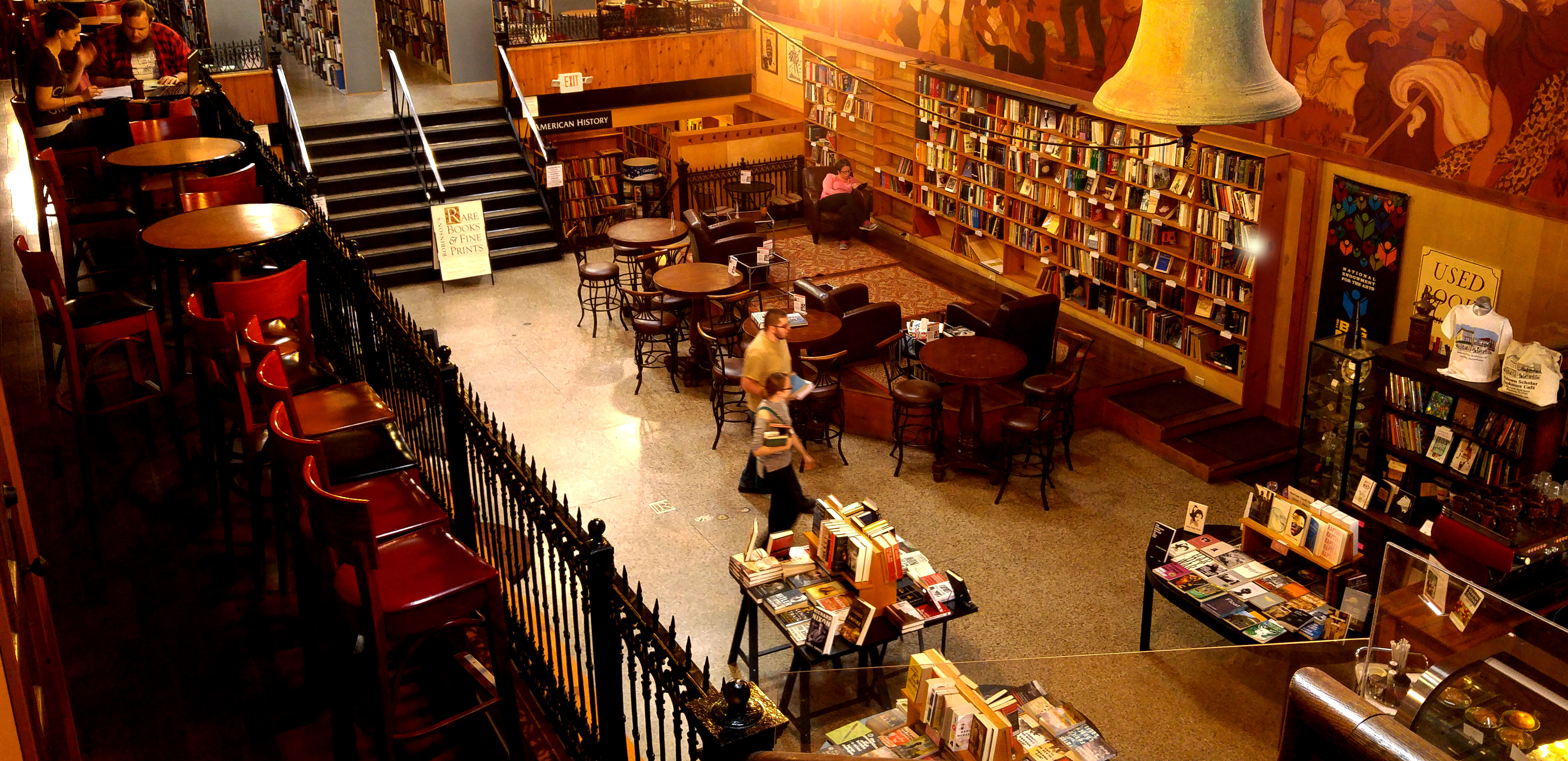 This is the main floor of the Midtown Scholar Bookstore in Harrisburg, PA, where they have featured authors and events.